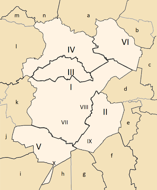 Map of the municipality of Heist-op-den-Berg including villages, hamlets and neighbouring municipalities.